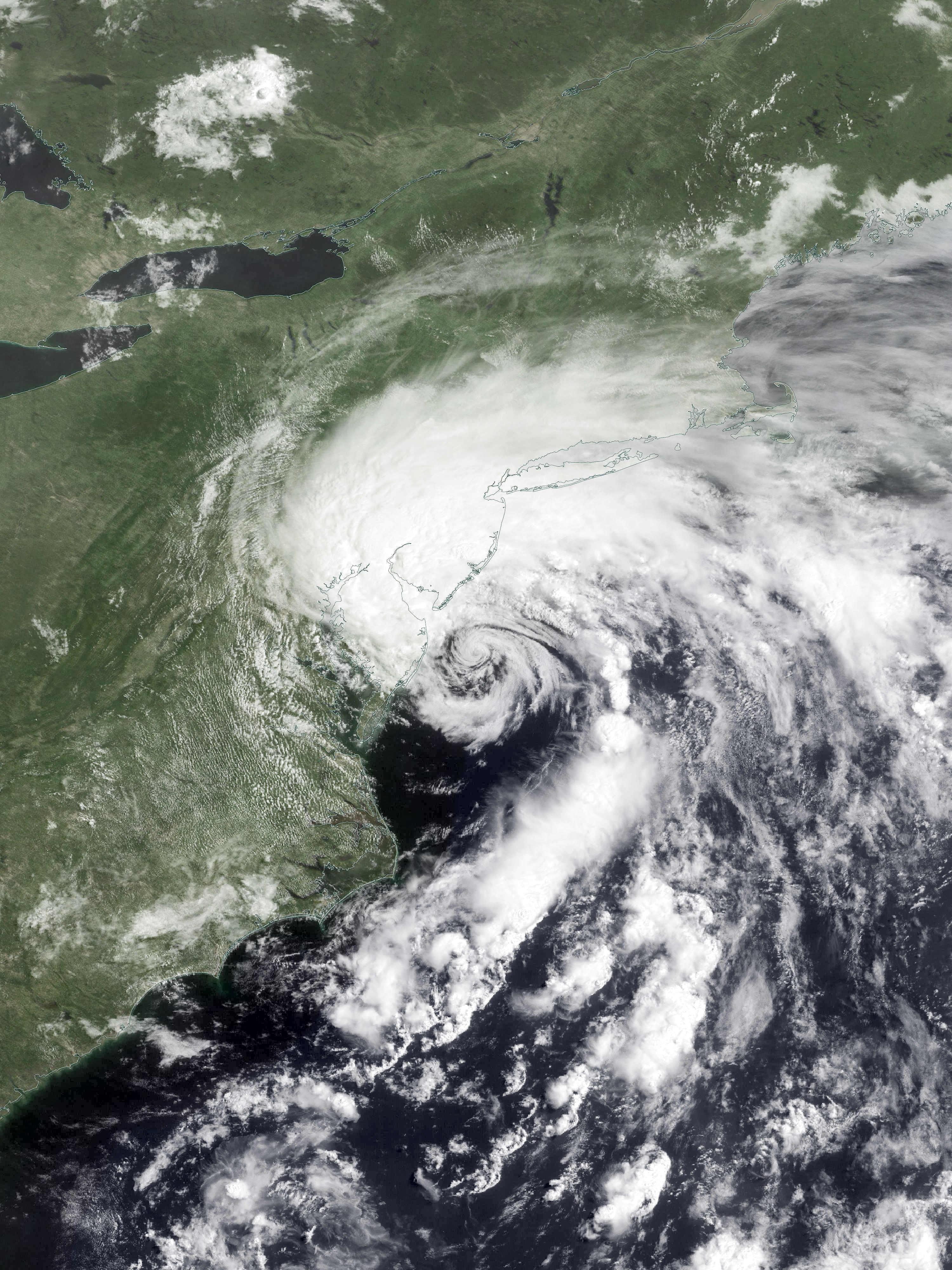 Tropical Storm Fay on July 10, 2020